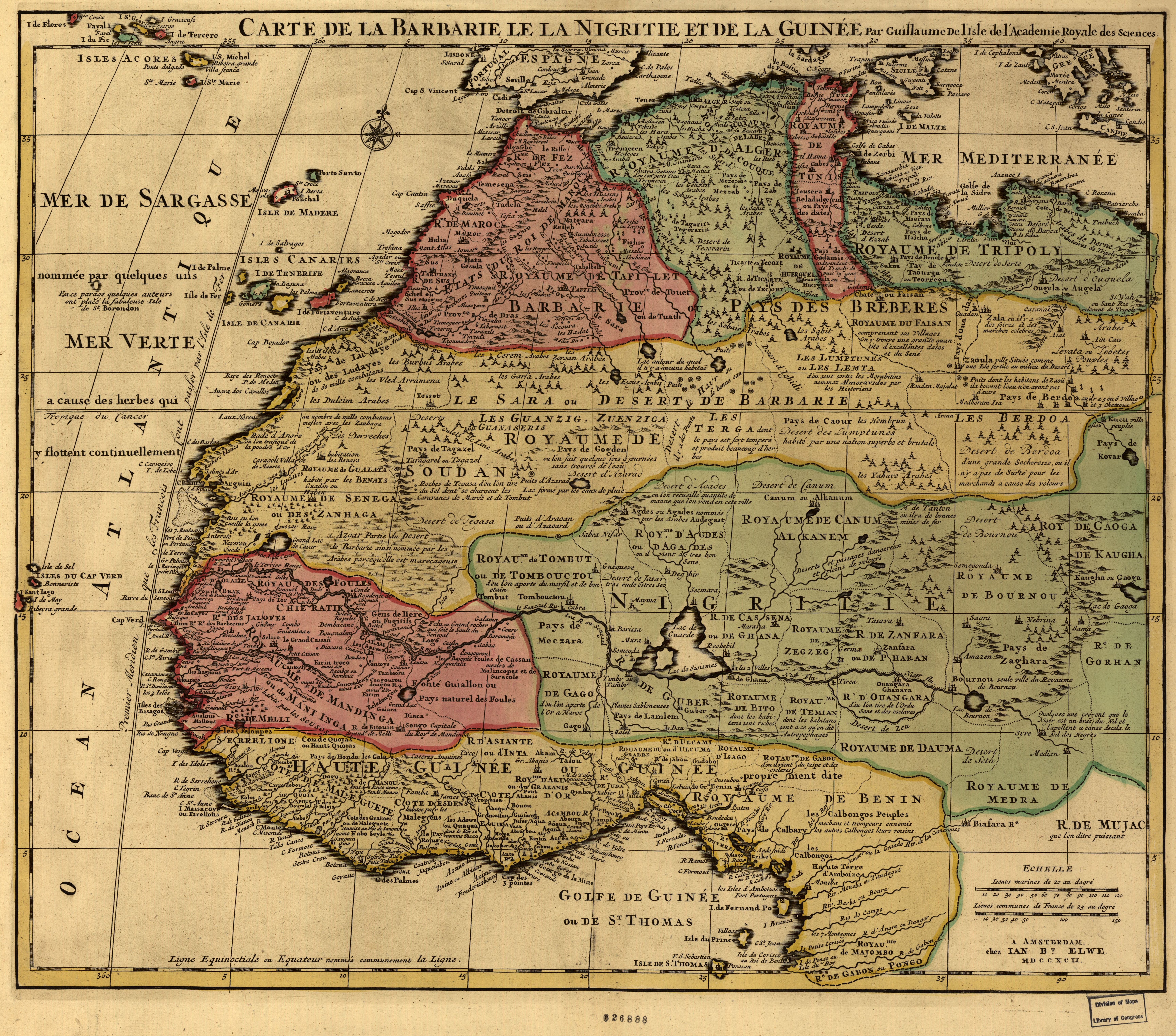 Map showing North Africa and Guinea, 1742. Scale 1:10,000,000, 49 x 57 cm